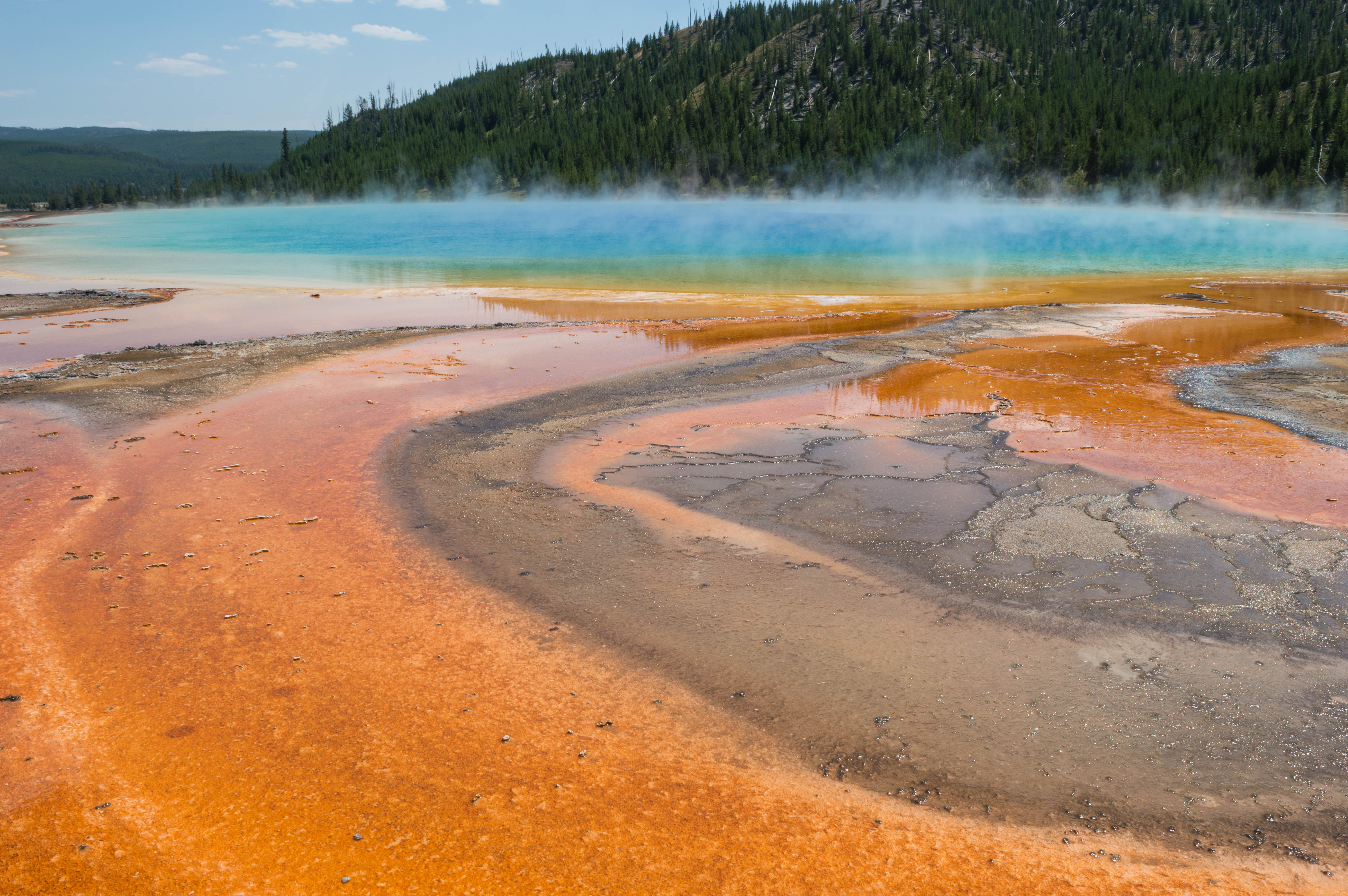 The Grand Prismatic Spring at Yellowstone NP, seen from the boardwalk.